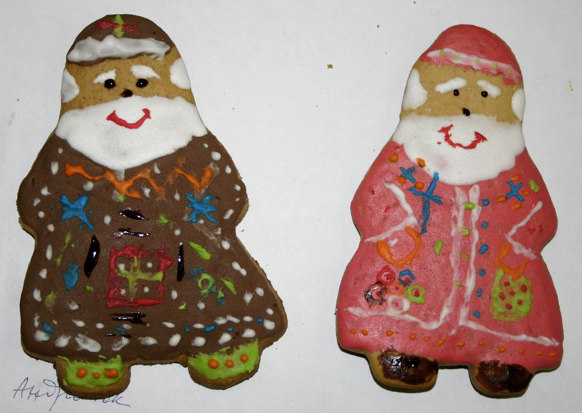 Mykolajchyky — cookies for Saint Nicholas Day in Ukraine